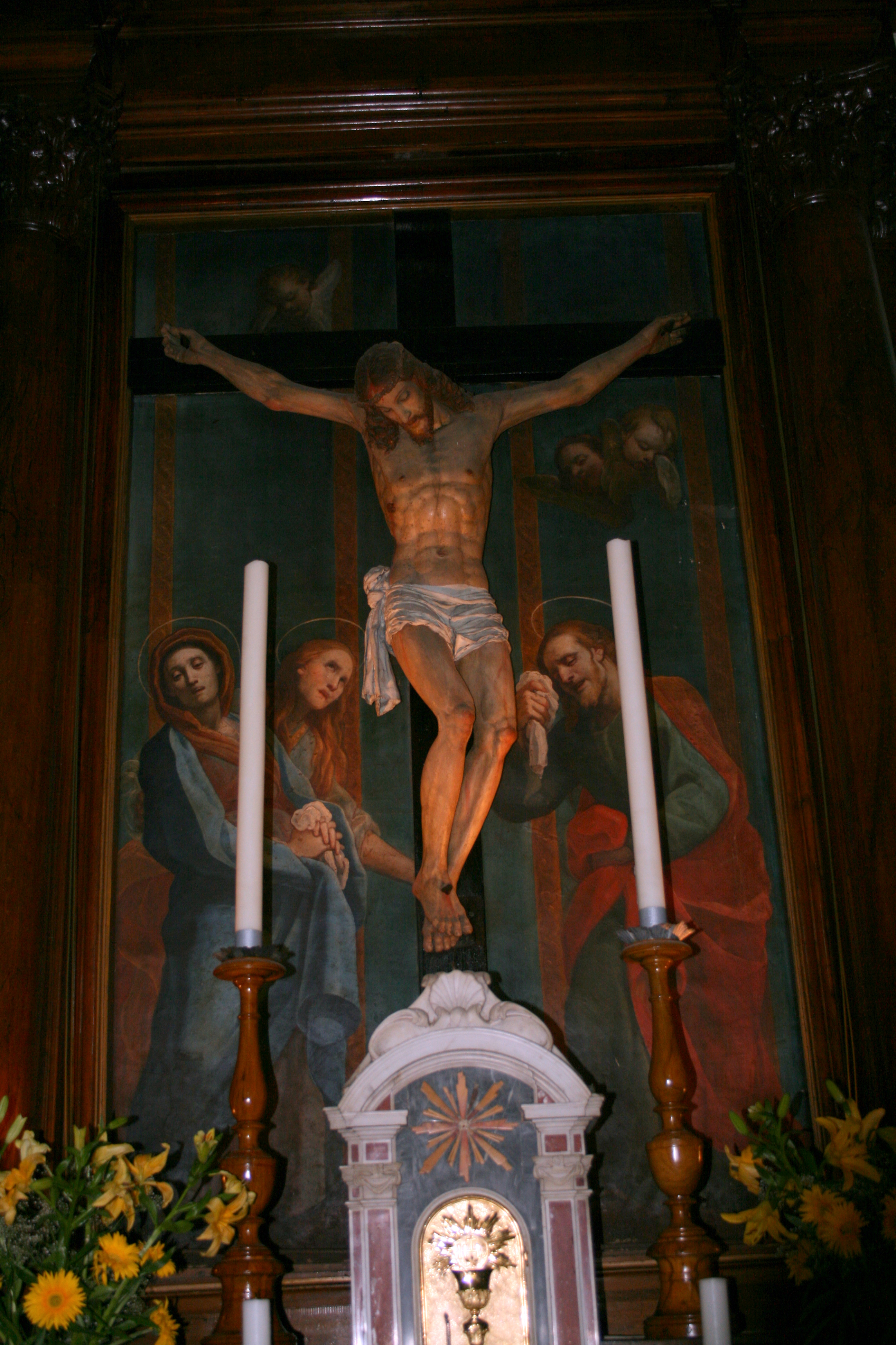 Main altar of che Church of San Lorenzo, the church of the Cappuccini Convent in Montevarchi